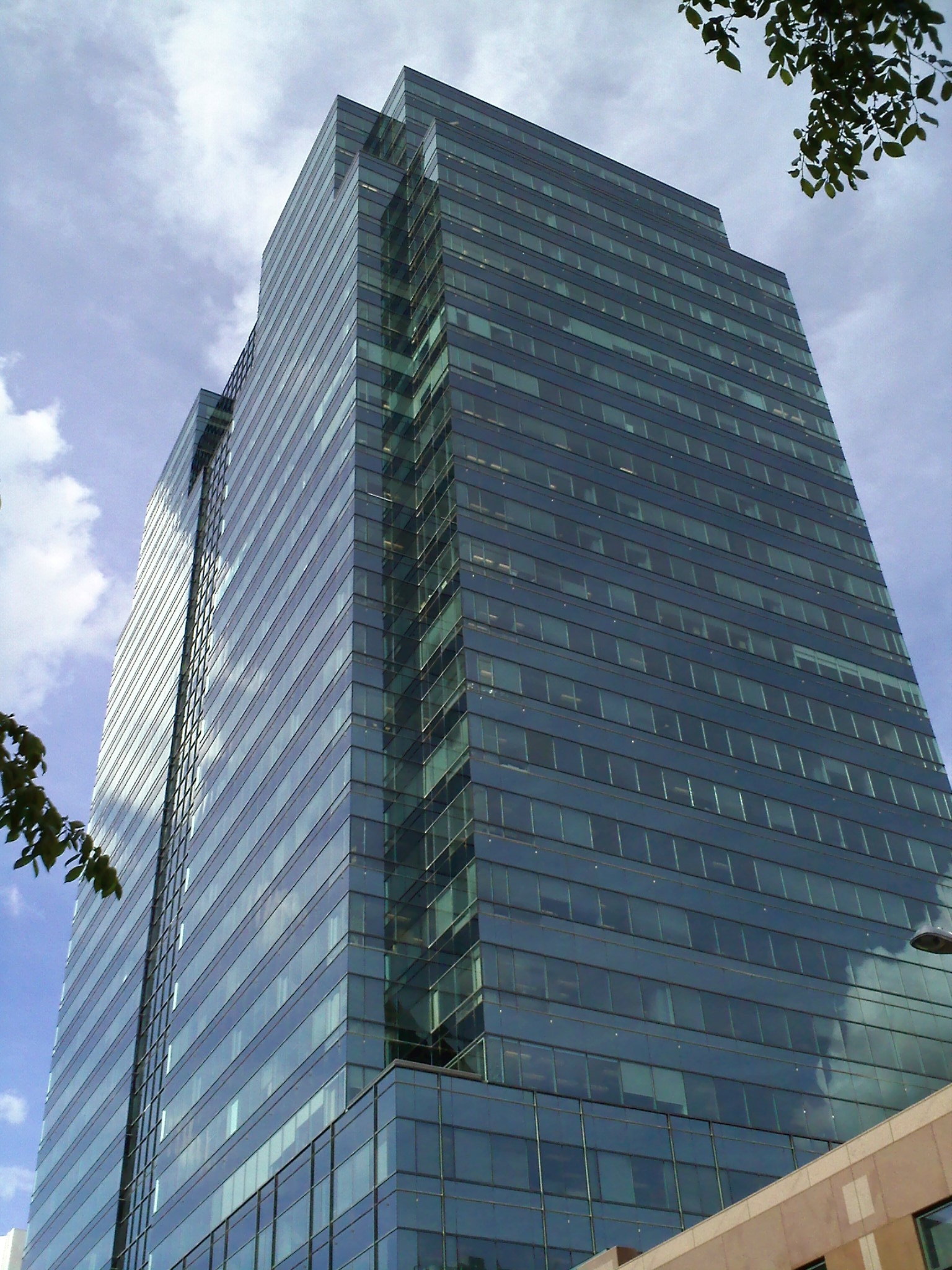 Southwest side of Commerce Place, Edmonton, from Jasper Avenue & 102 Street.